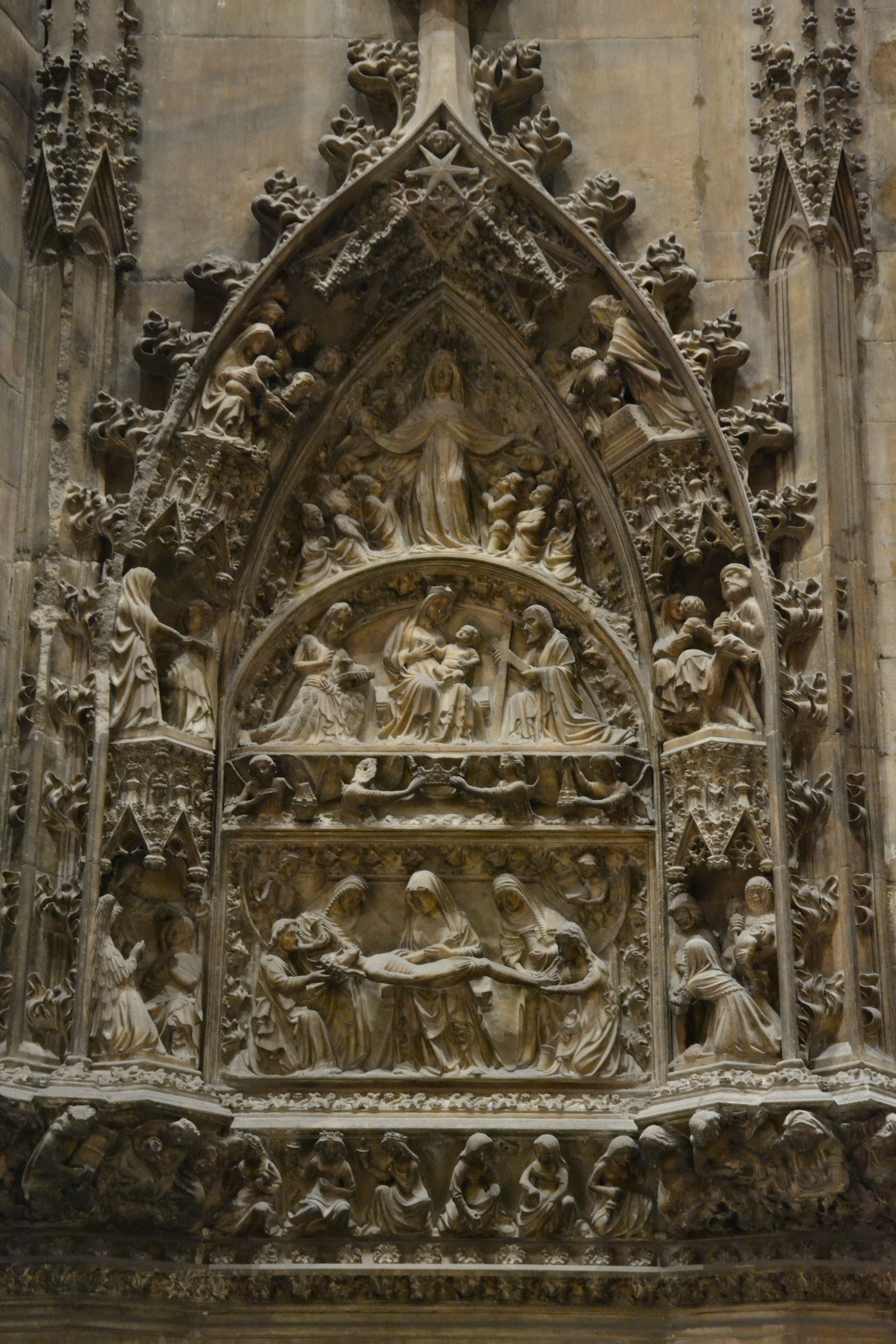 Duomo (Milan) - Southern Vestry portal